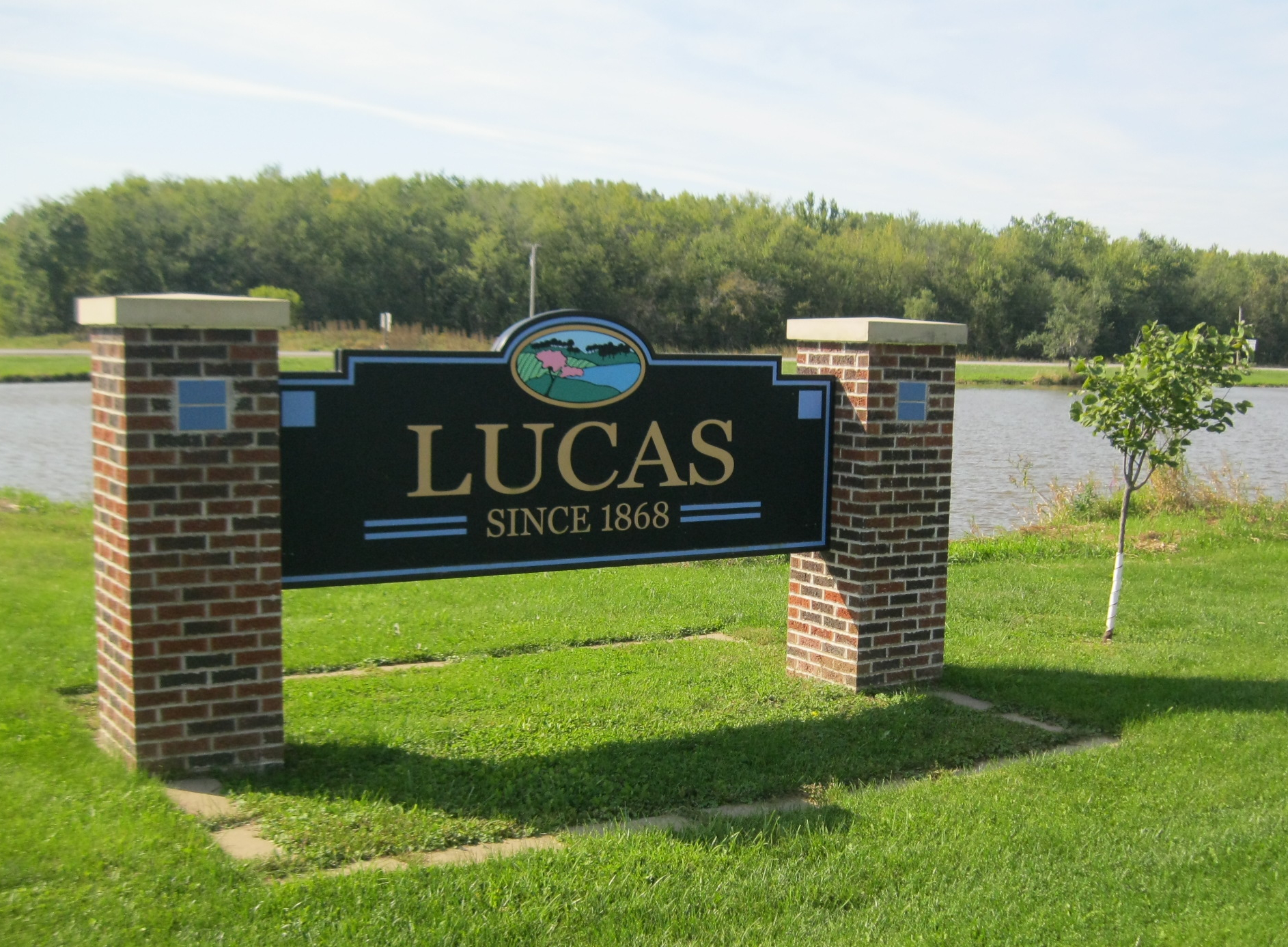 City sign, Lucas, Lucas County, Iowa